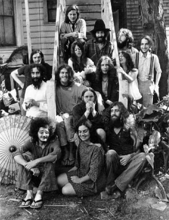 The Scott Street Commune gathered in the backyard of the Redevelopment-owned Victorian which they occupied from 1971 to 1974. The Free Print Shop was in the basement of the house next door. The Free Bakery would be located on the second floor next door after the Commune took possession of both buildings. This photograph was taken by Miriam, ca. mid-1972. Several members are absent.